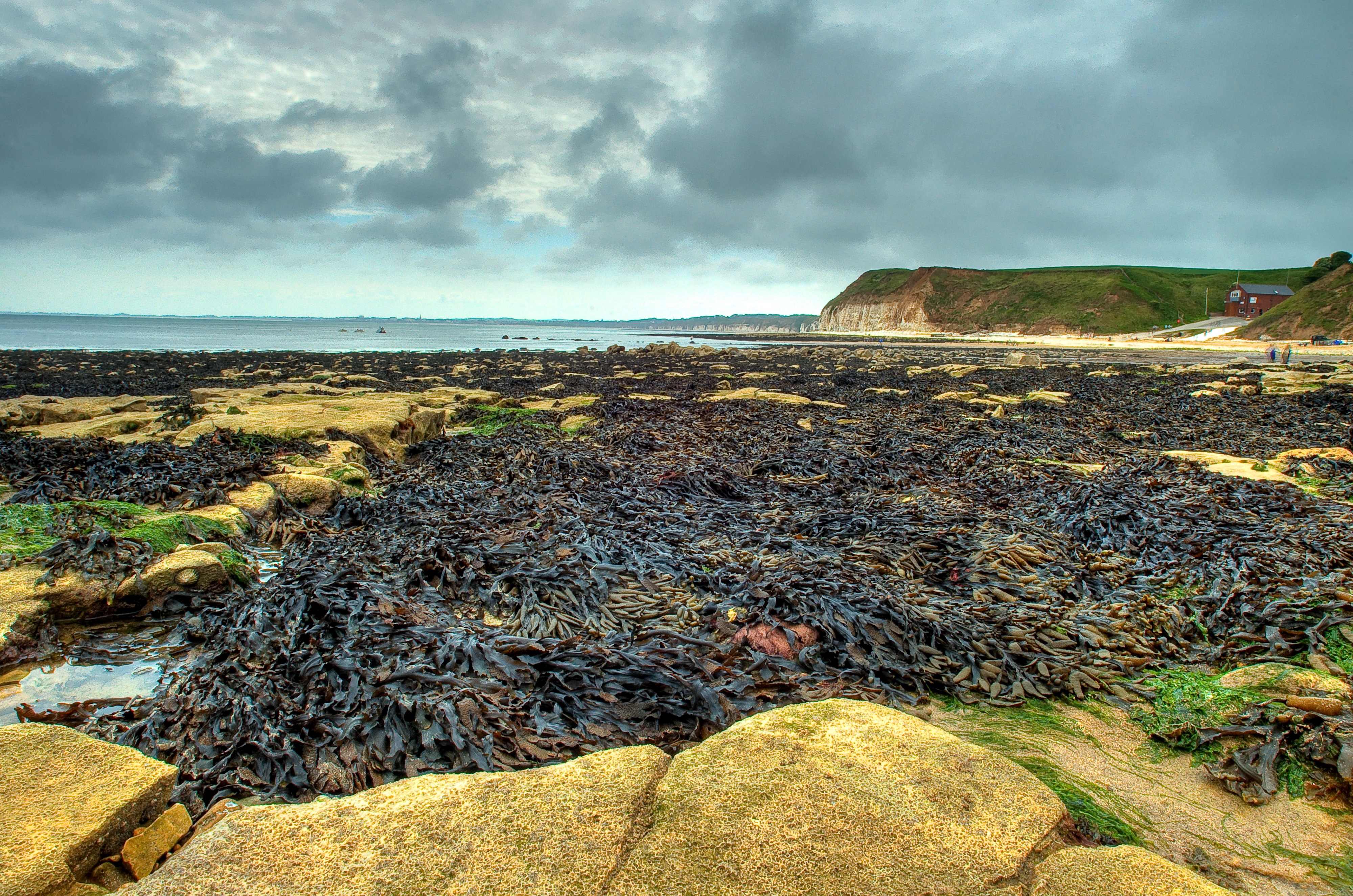 South Landing, Flamborough - looking towards Bridlington, East Riding of Yorkshire, England. The seaweed popped. Literally. Become a fan on facebook